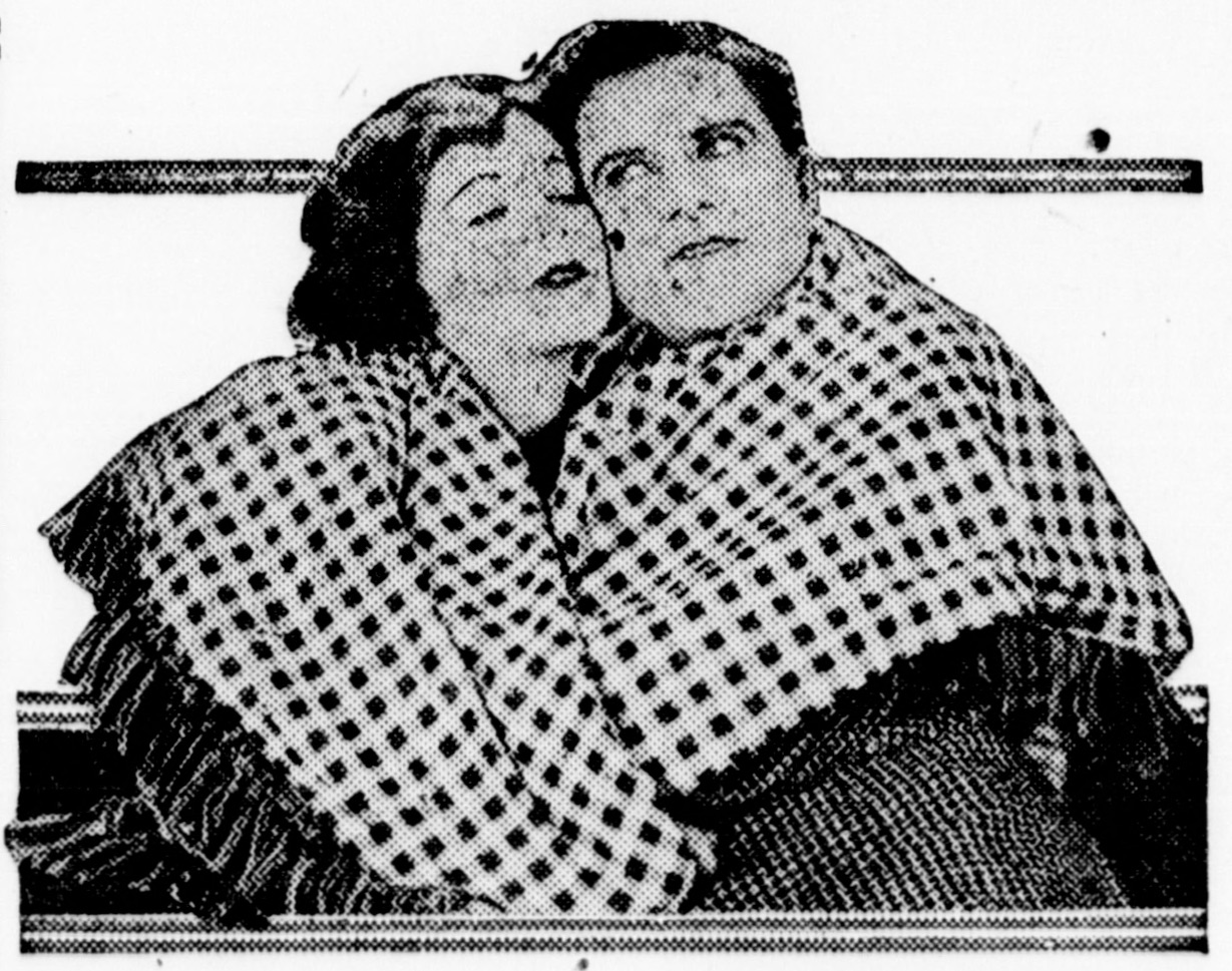 The Idle Rich (1921) is a 1921 American silent comedy film. Directed by Maxwell Karger, the film stars Bert Lytell, Virginia Valli, and John Davidson. This is a scene from the film as published in a 1922 newspaper The Garden Island.